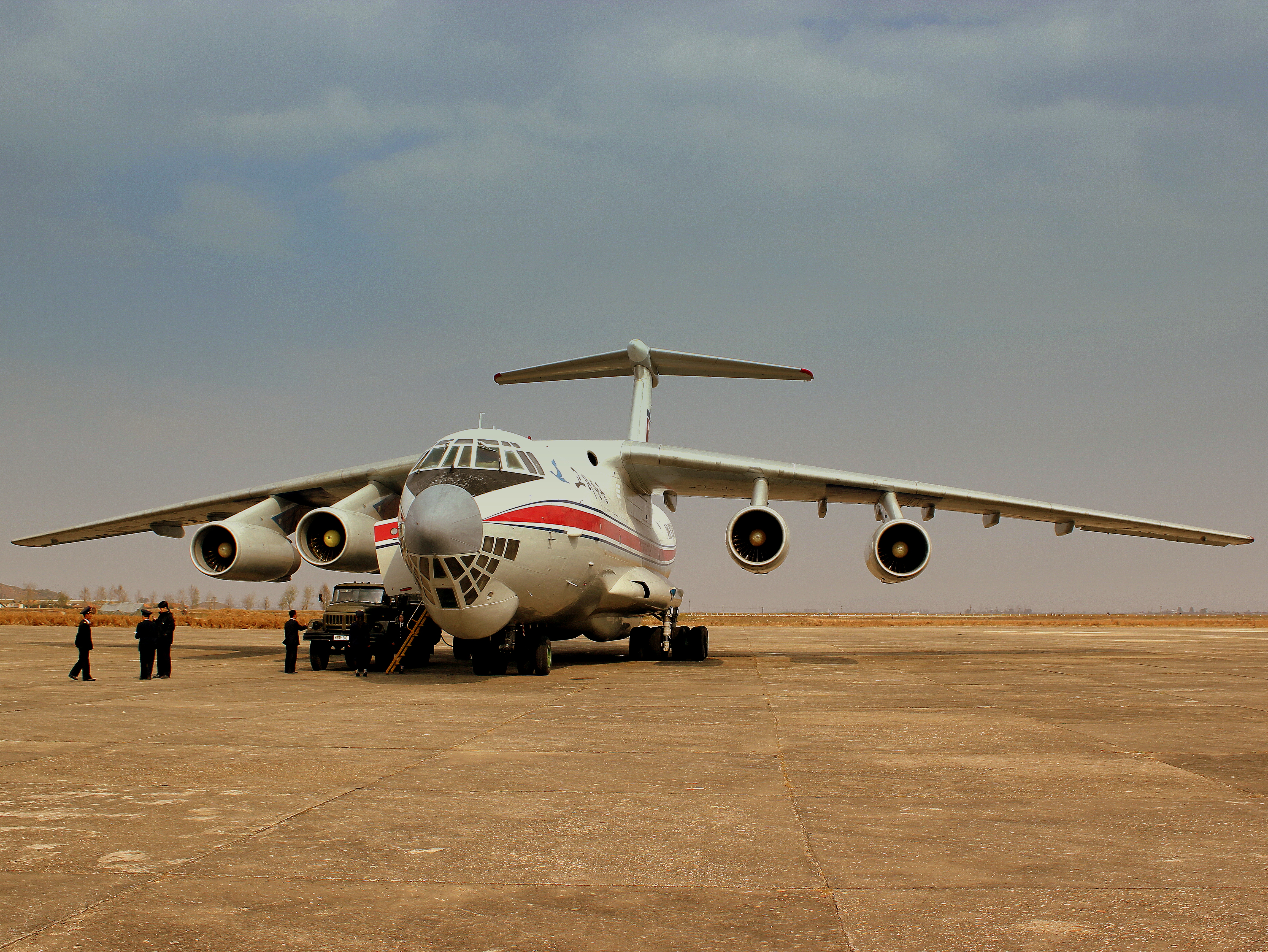 AIR KORYO IL76 P912 AT SONDOK HAMHUNG AIRPORT DPR KOREA OCT 2012